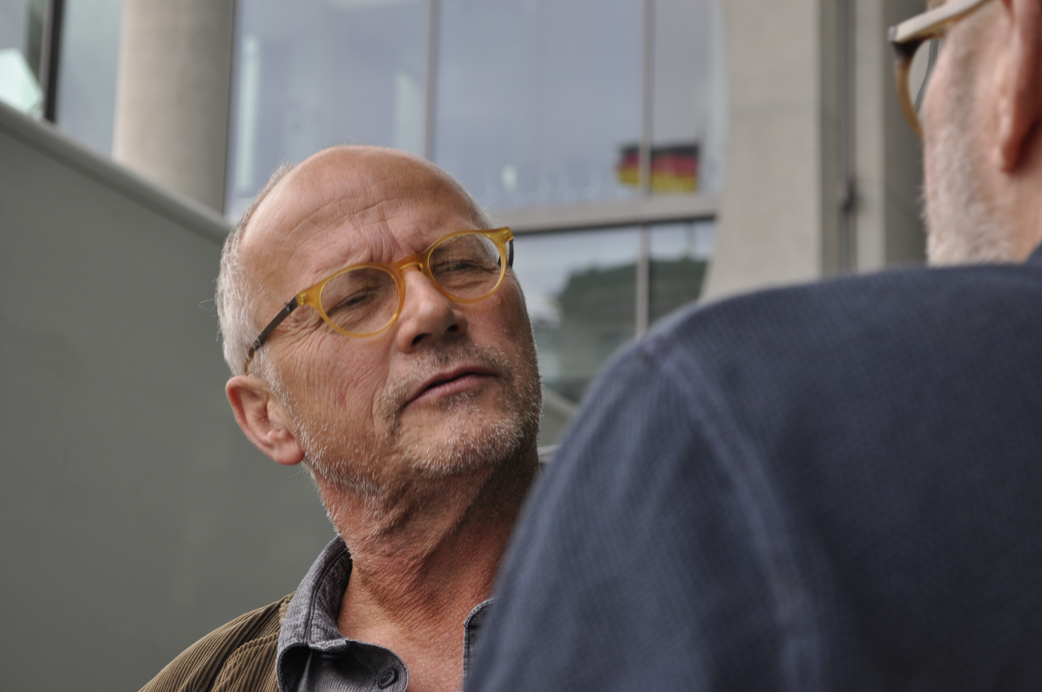 Ausstellung im Bundestag (2014), exhibition in Deutscher Bundestag (2014)